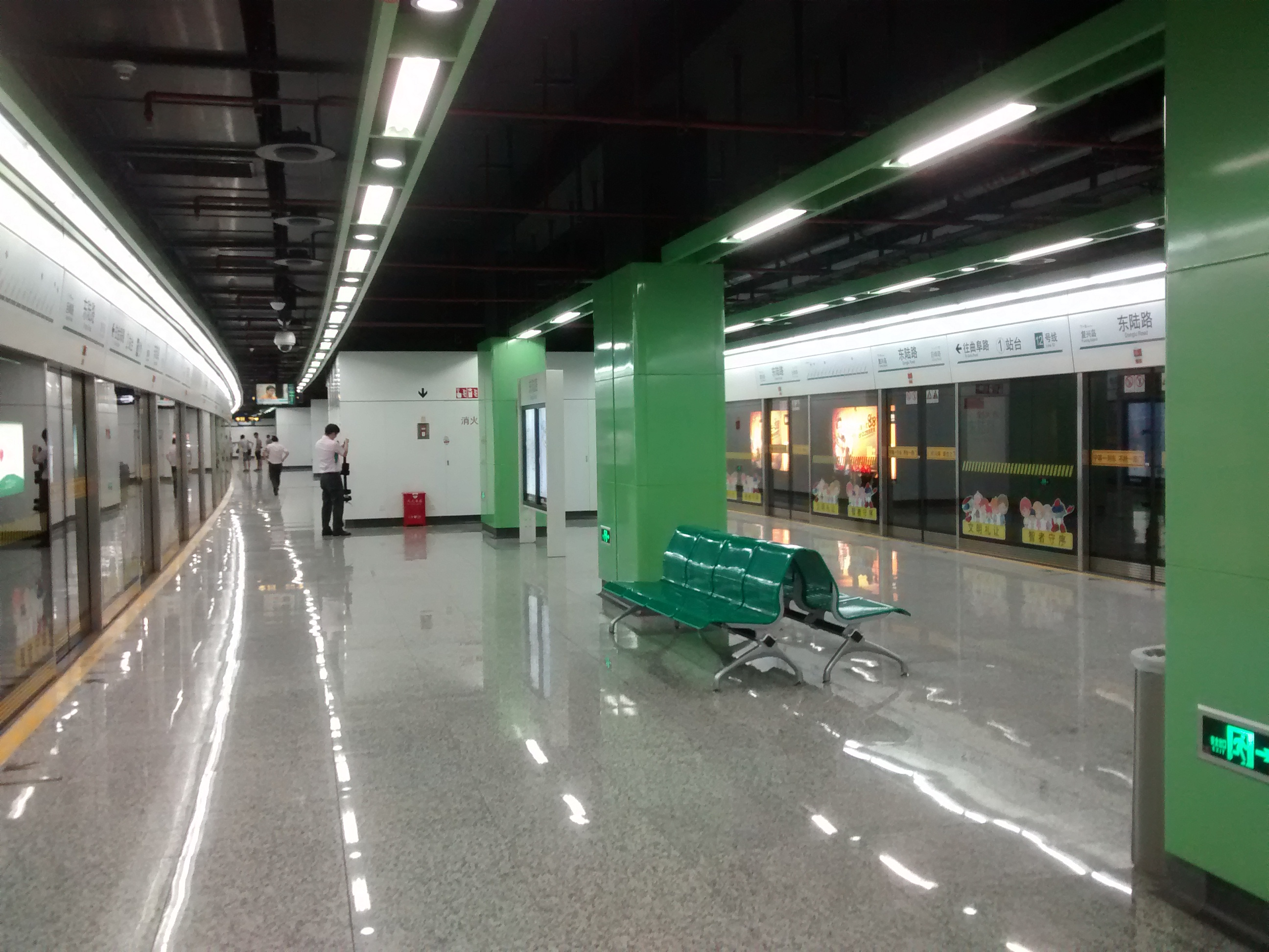 Donglu Road Station, Shanghai